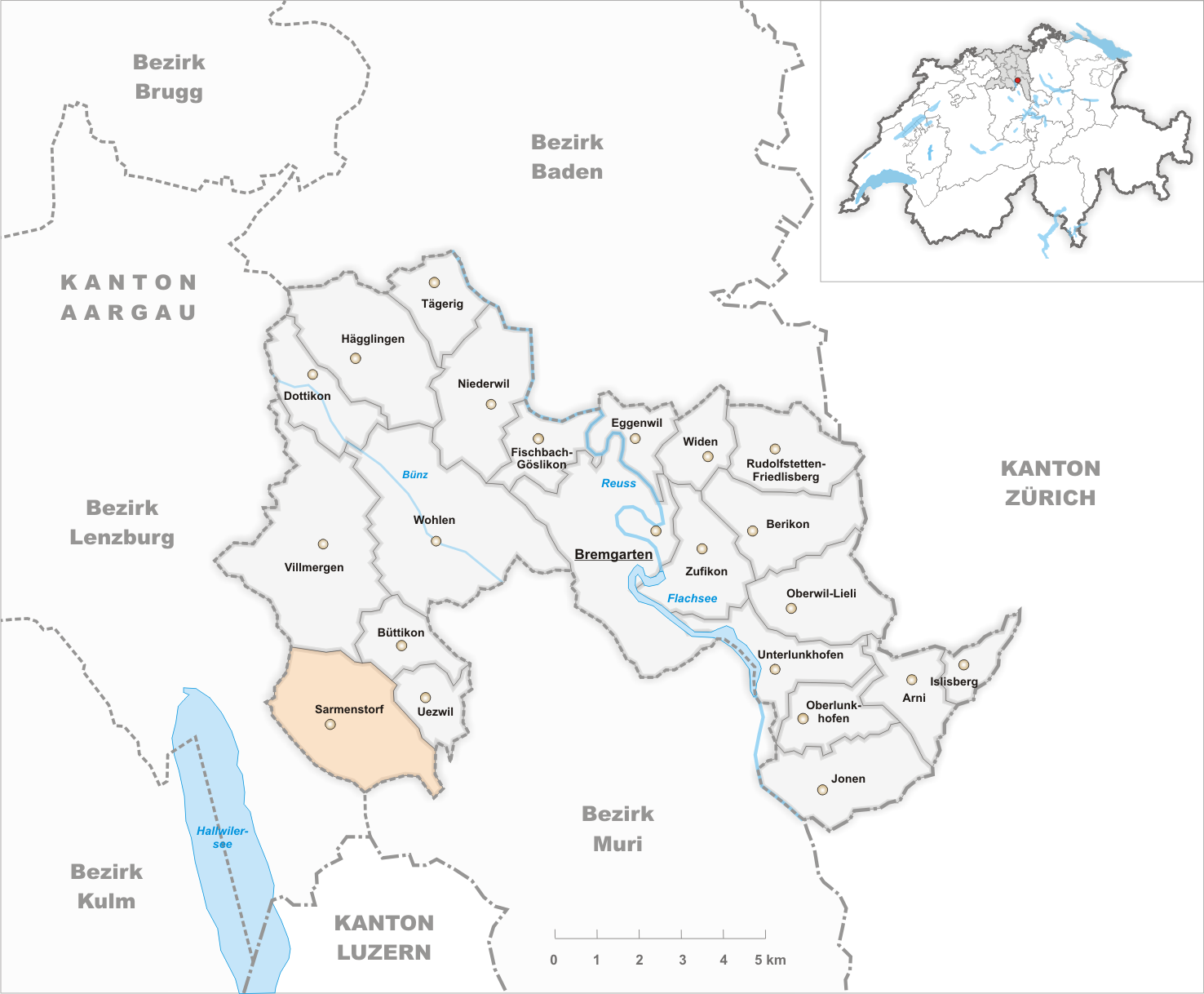 Municipality Sarmenstorf